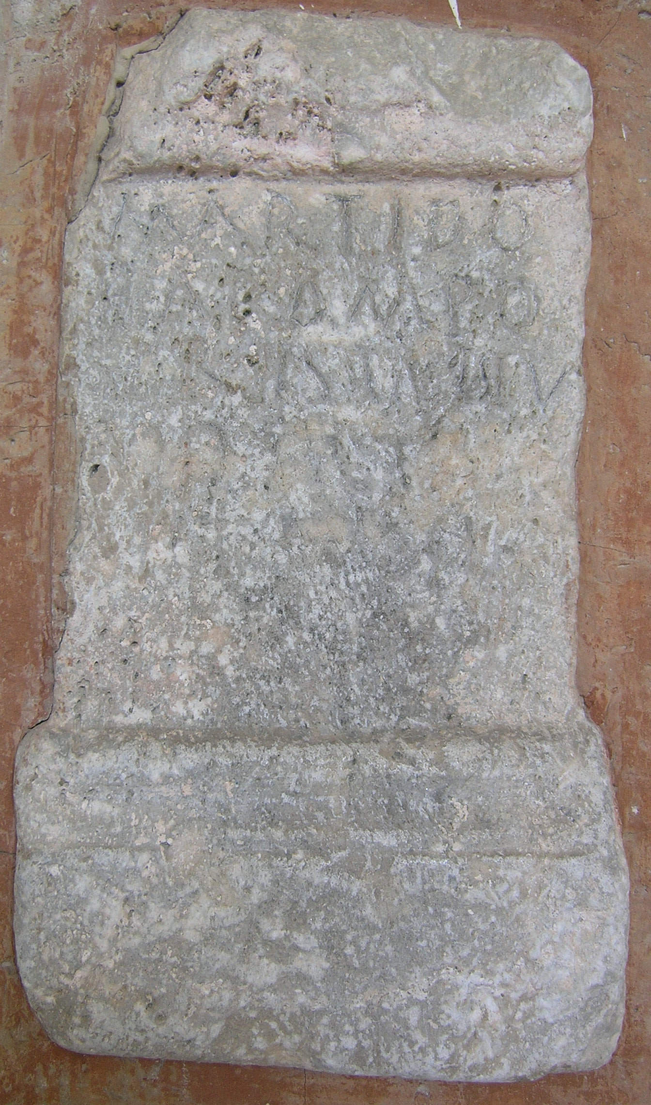 Ancient roman stone near the Saint Magnus sanctuary at Castelmagno (Italy)